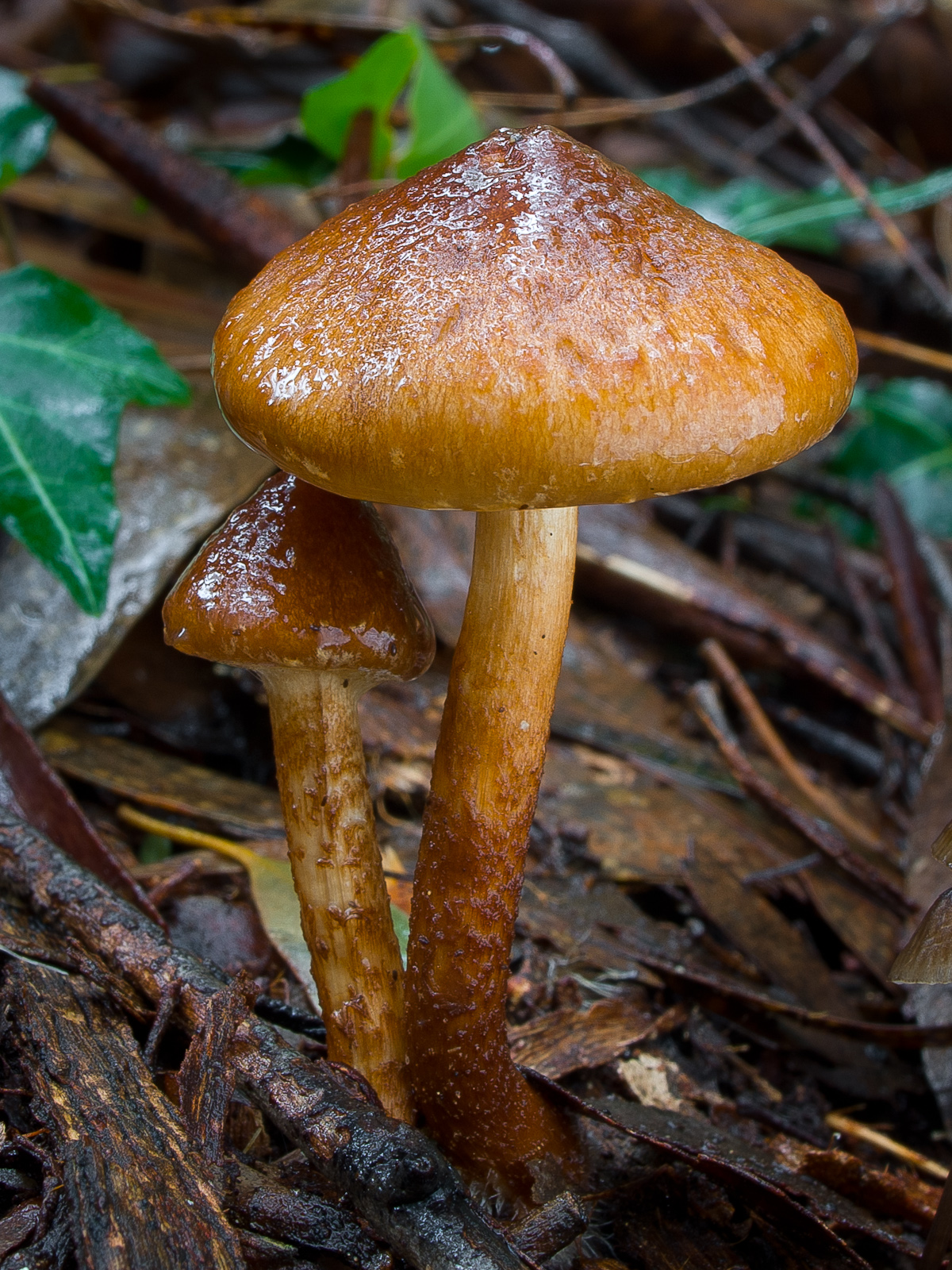 Fruit body of the fungus Pholiota communis (Cleland & Cheel) Grgur. Specimen photographed in Dandenong Ranges National Park, Victoria, Australia.